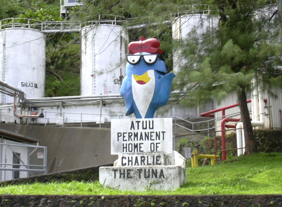 Statue of "Charlie the Tuna" at the Starkist cannery in Atu‘u, American Samoa photographed by Eric Guinther on October 16, 2005.